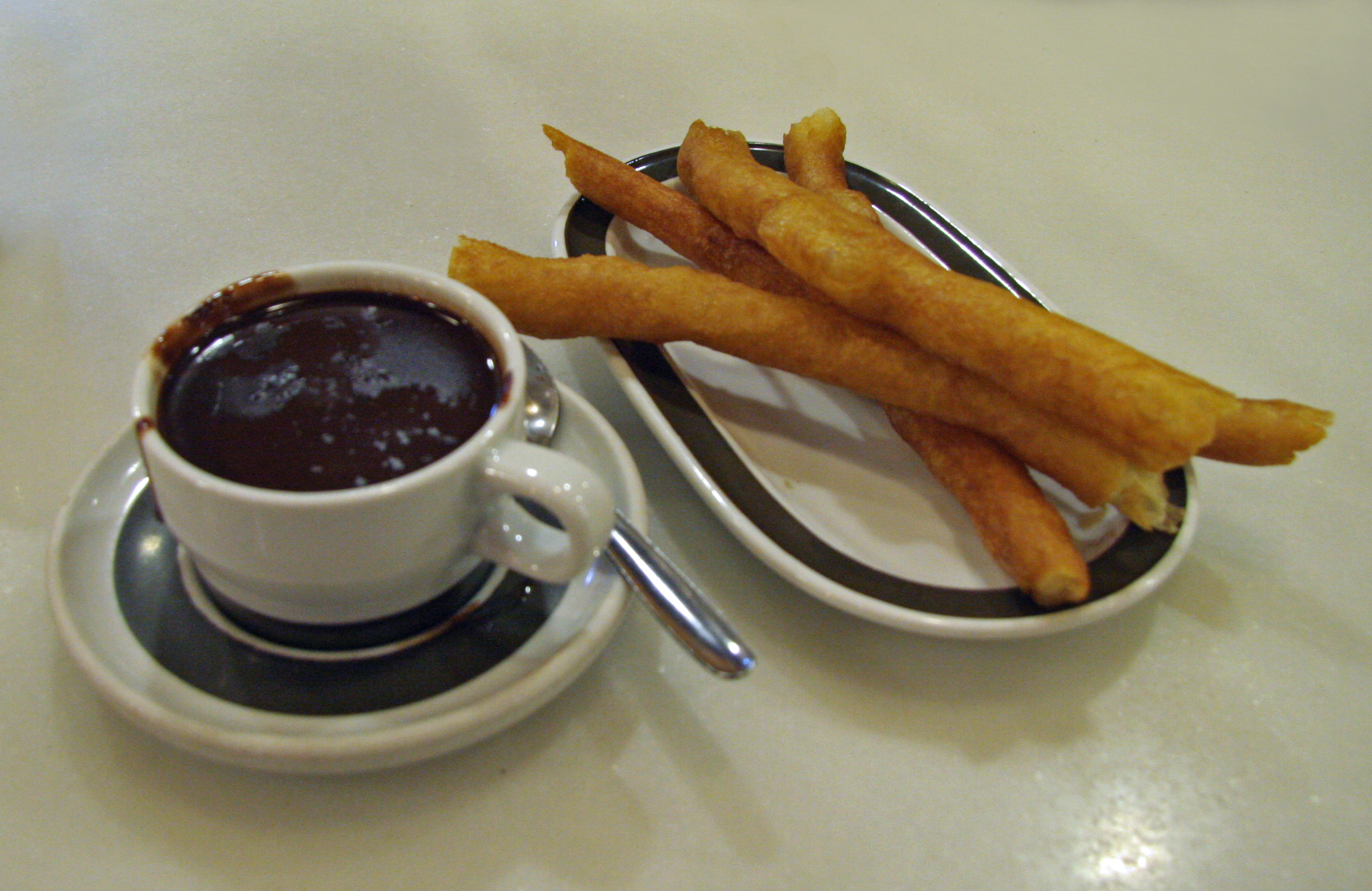 Well, you have to do it don't you?